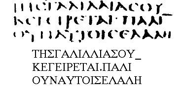 Low resolution magnification of fragment of Codex Sinaiticus